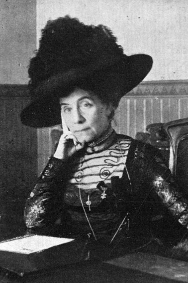 portrait photo of Sofia Casanova